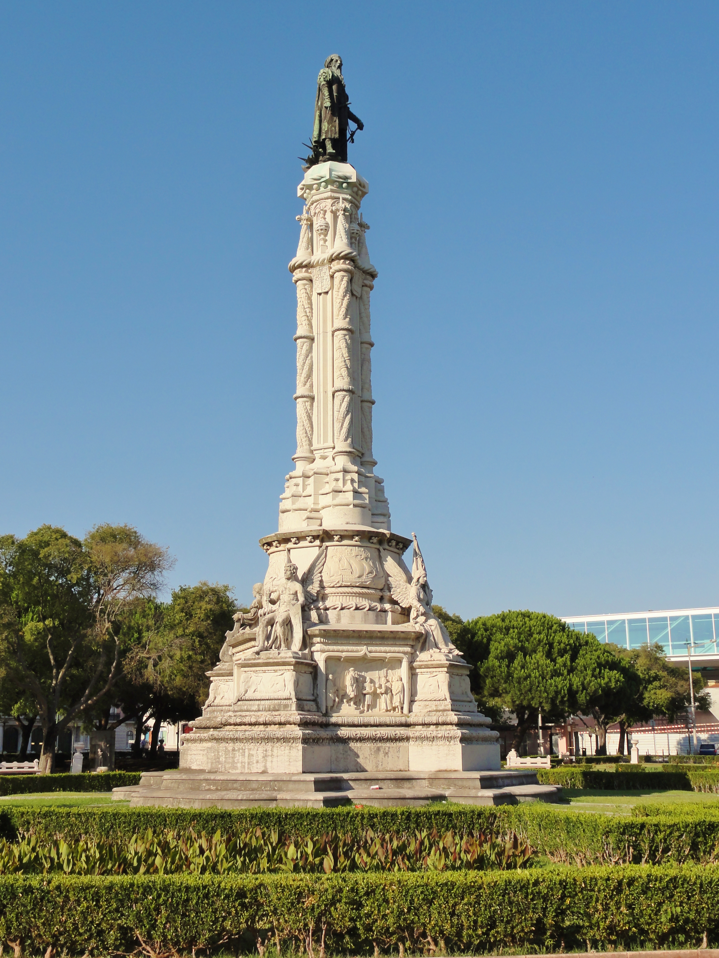 Monument to and at the Square Afonso de Albuquerque in the Belém district of the city of Lisbon, Portugal / With the new National Coach Museum, (right side of the photo)